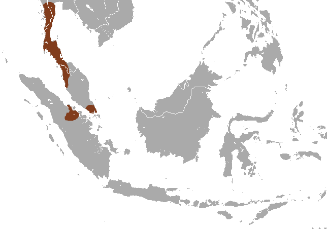 Banded Surili (Presbytis femoralis) range